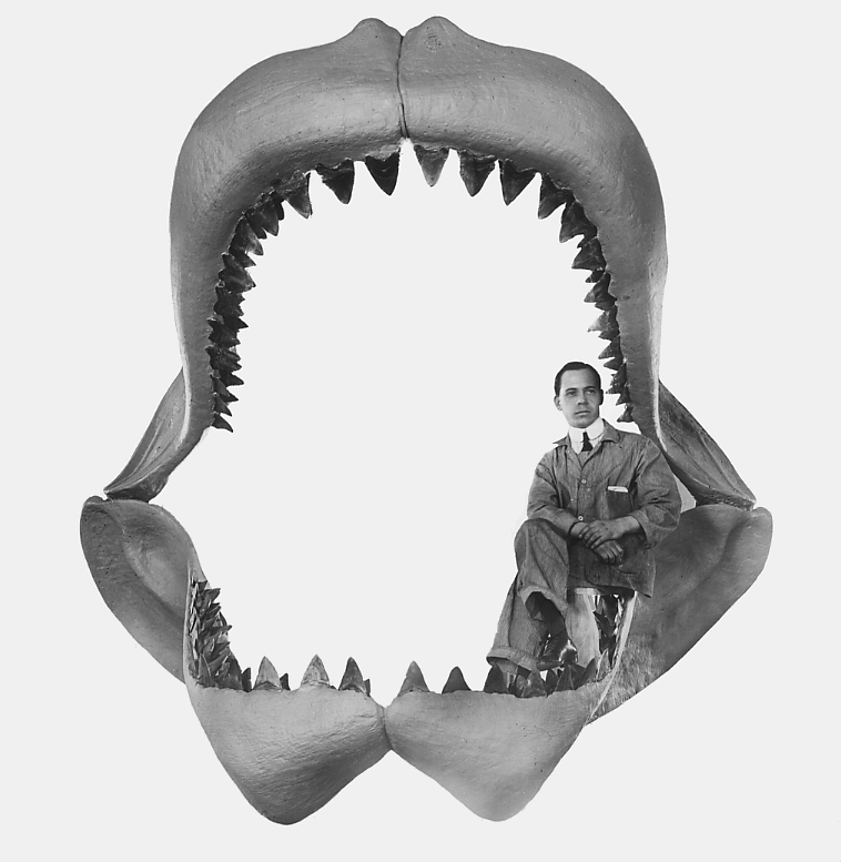 Man sitting on Carcharodon megalodon jaws.